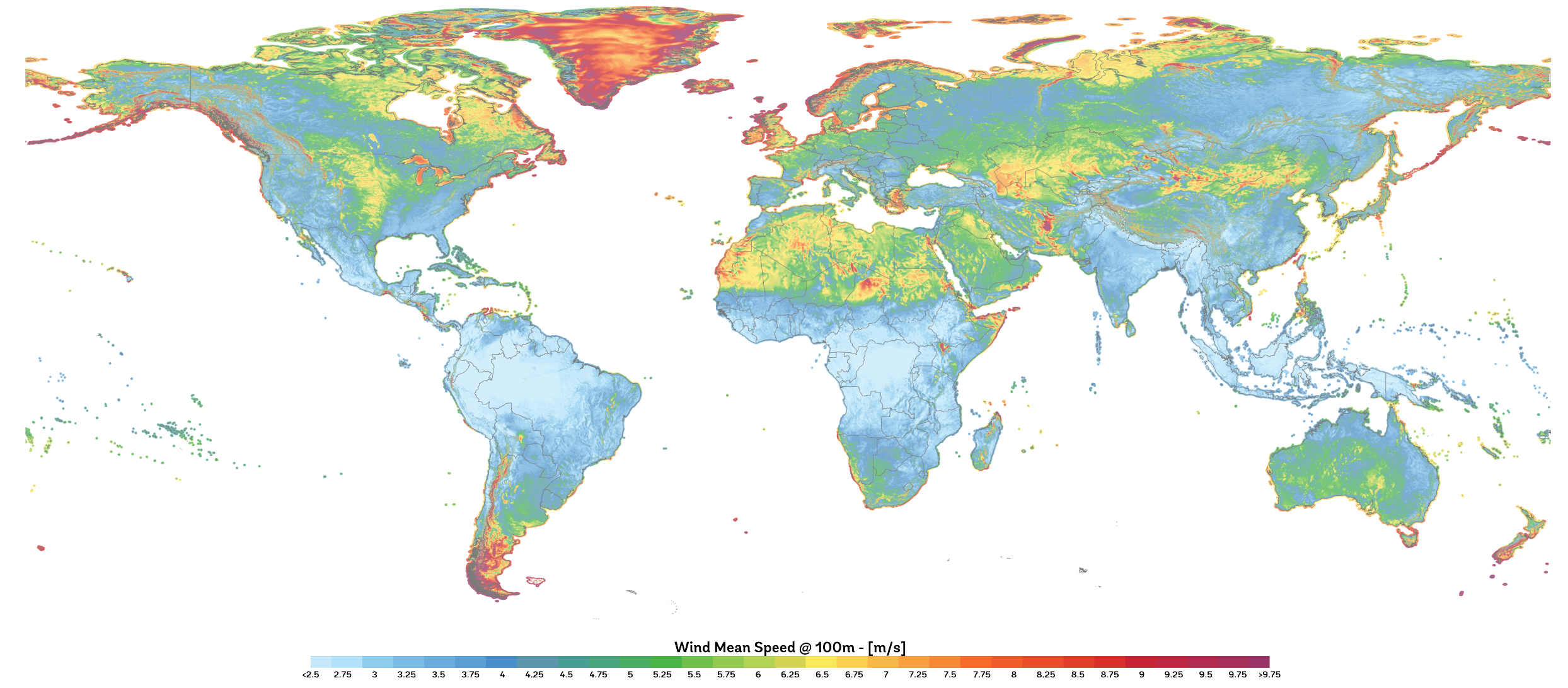 This map provides an estimated summary of wind speed at 100 m above surface level. The map is derived from high-resolution wind speed distributions based on a chain of models, which downscales winds from global models (~70 km), to mesoscale (9 km) to microscale (150 m terrain). The output resolution is 1 km.